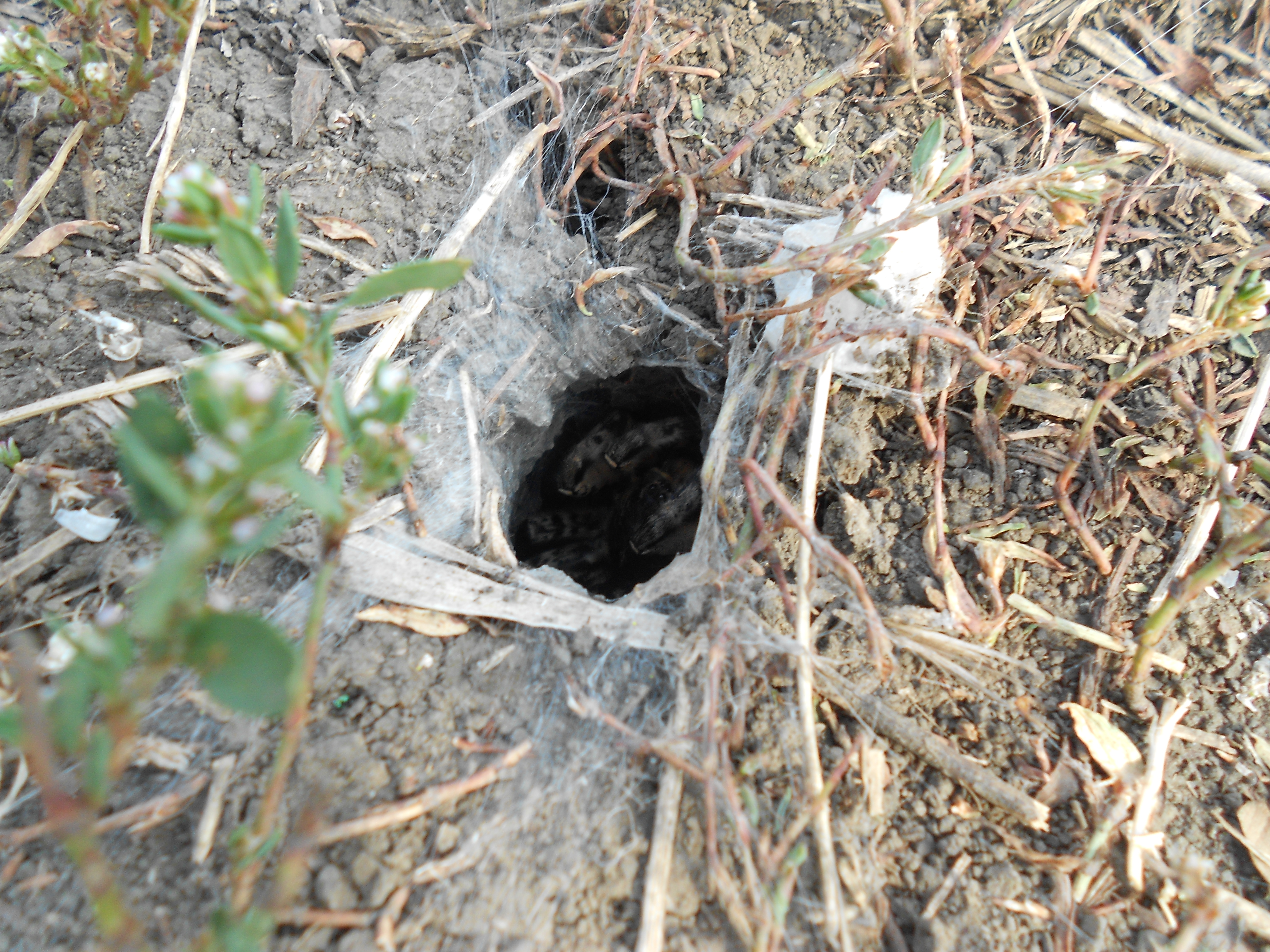 Lycosa singoriensis burrow